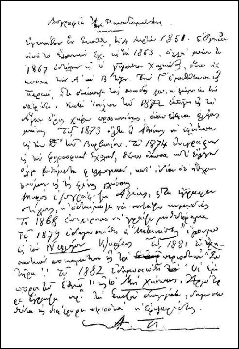 A short handwritten CV by Alexandros Papadiamantis (1851-1911), Greek novelist